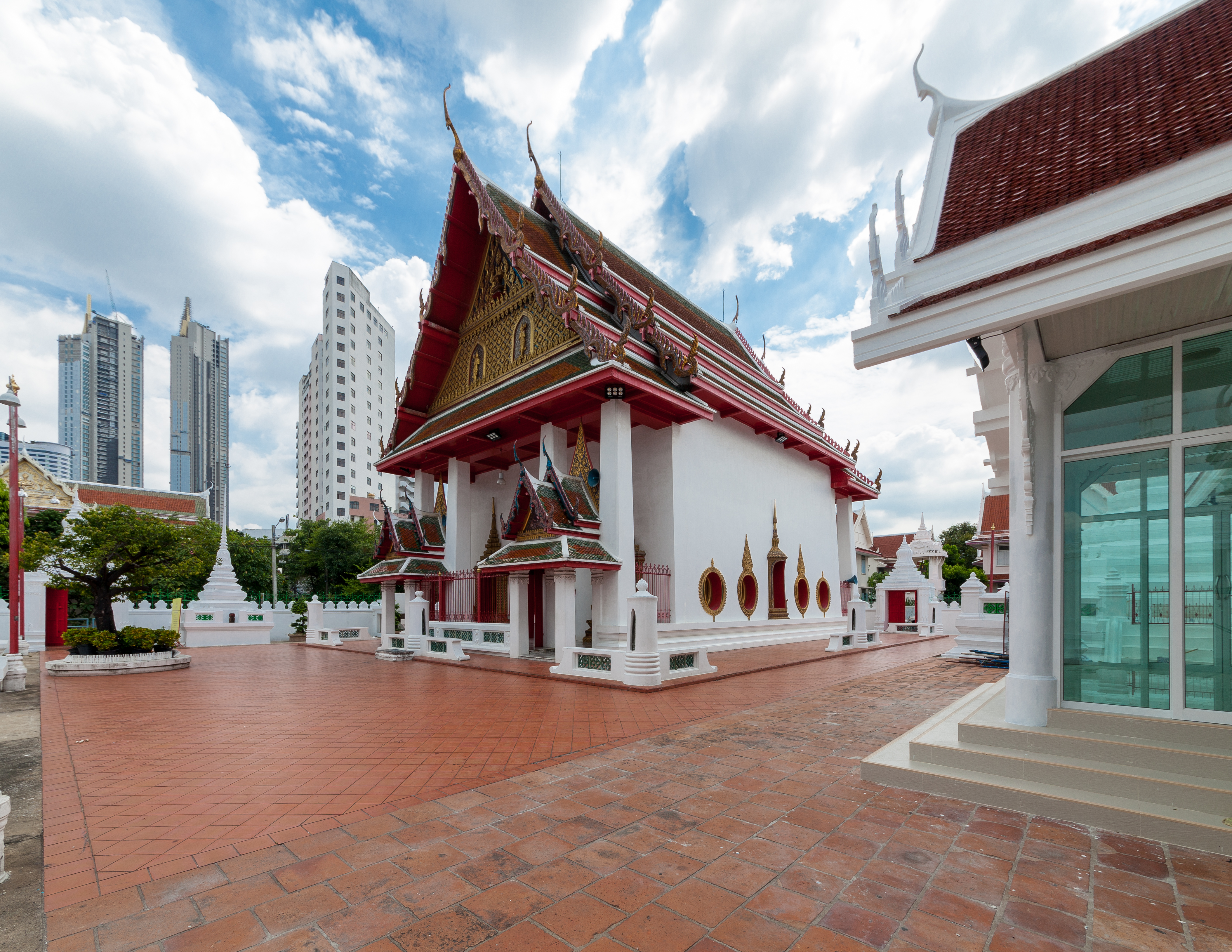 Ubosot of Wat Thong Nopphakhun, Khlong San District, Bangkok.